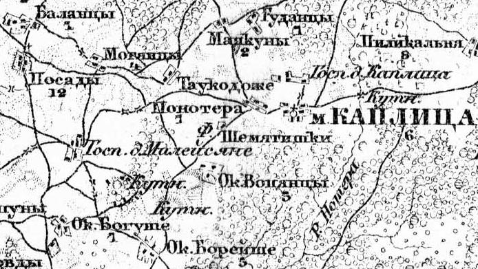 (Šemetiškiai folwarks)